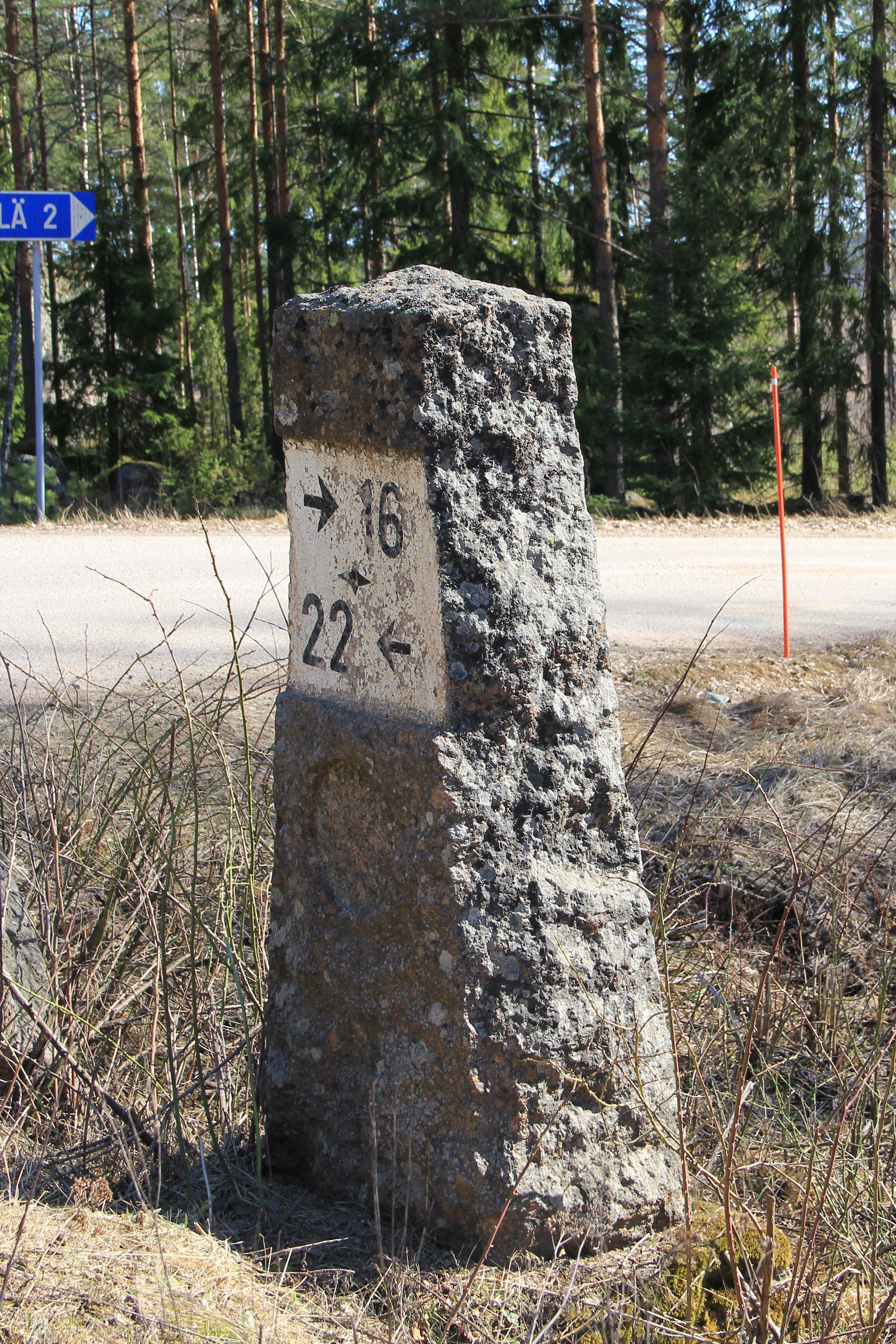 Milestone on Tallimäki–Virojoki museum road in Virolahti, Finland. The milestone is from the 1930s.